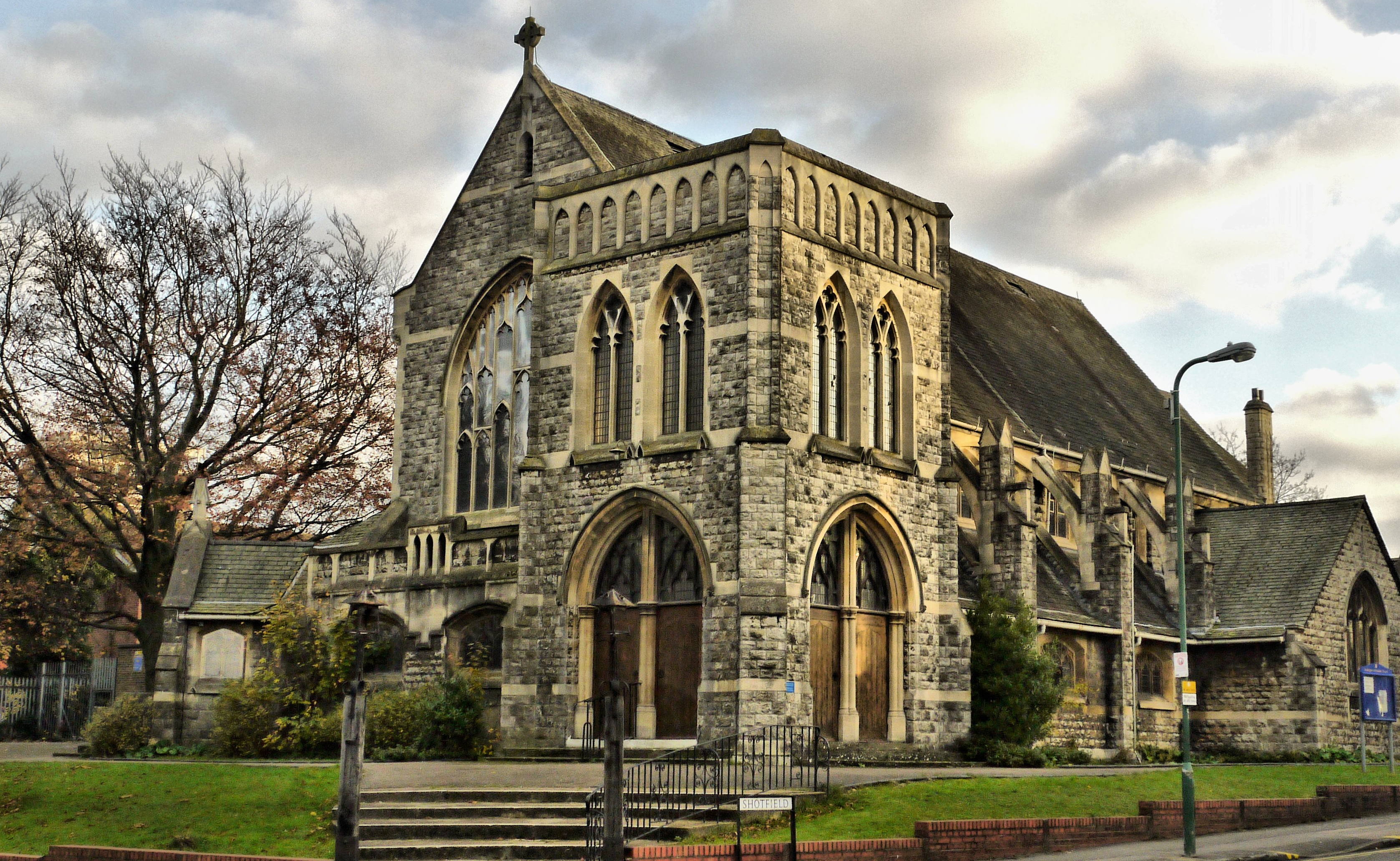 Wallington Methodist Church, Wallington, south London (formerly Surrey), seen from the northwest from the junction of Beddington Gardens (left) and Shotfield (right)